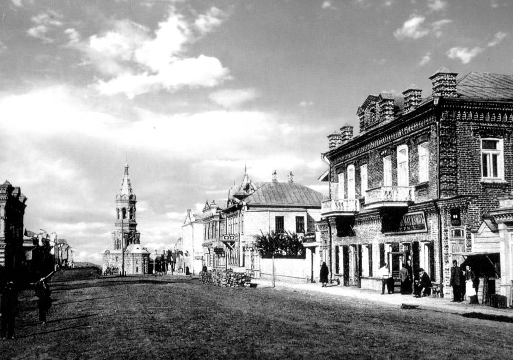 Alatyr.Simbirsk street and Kazan church (in the distance)